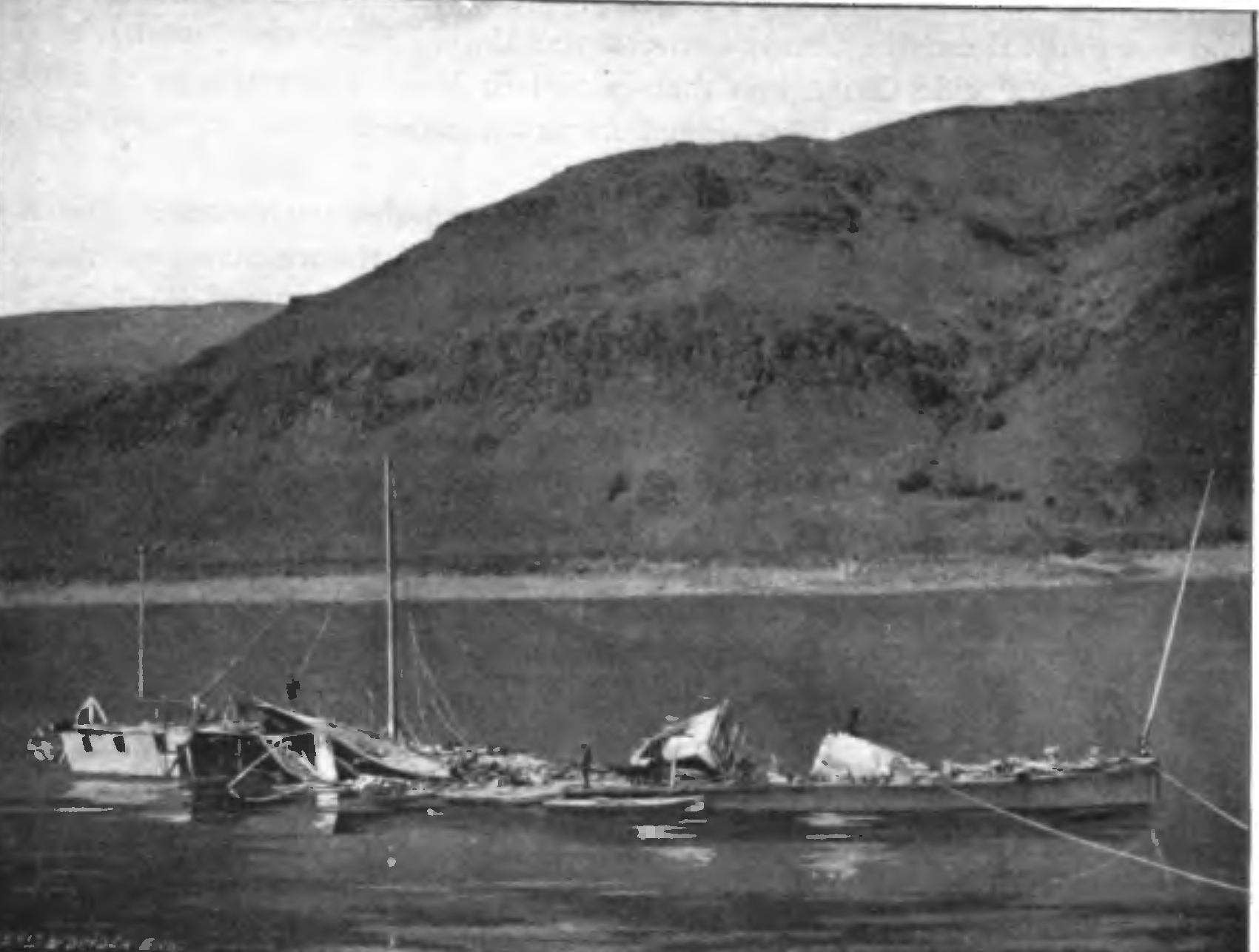 Photo showing wreckage of steamboat Annie Faxon following boiler explosion in 1893. (Note, there is a higher resolution scan available here.)